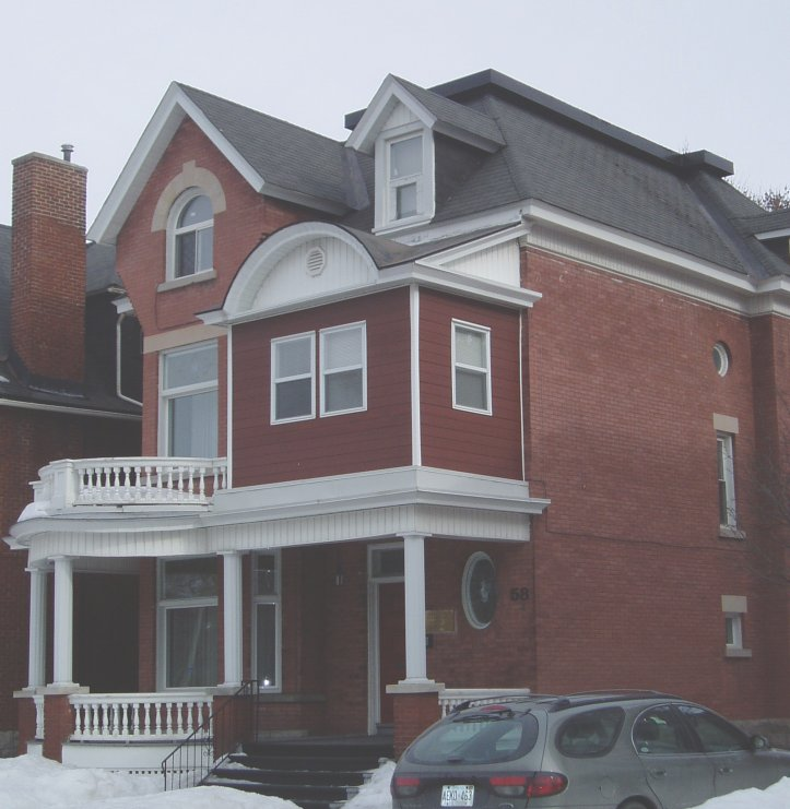 Embassy of Benin, Ottawa, Canada